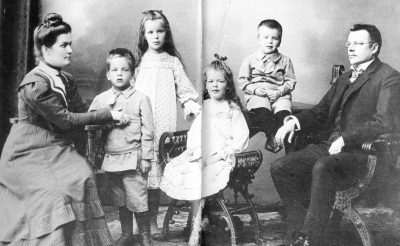 Family of Juho Kusti Paasikivi in 1906. From left: Anna, Juhani, Annikki, Vellamo, Varma and Juho.